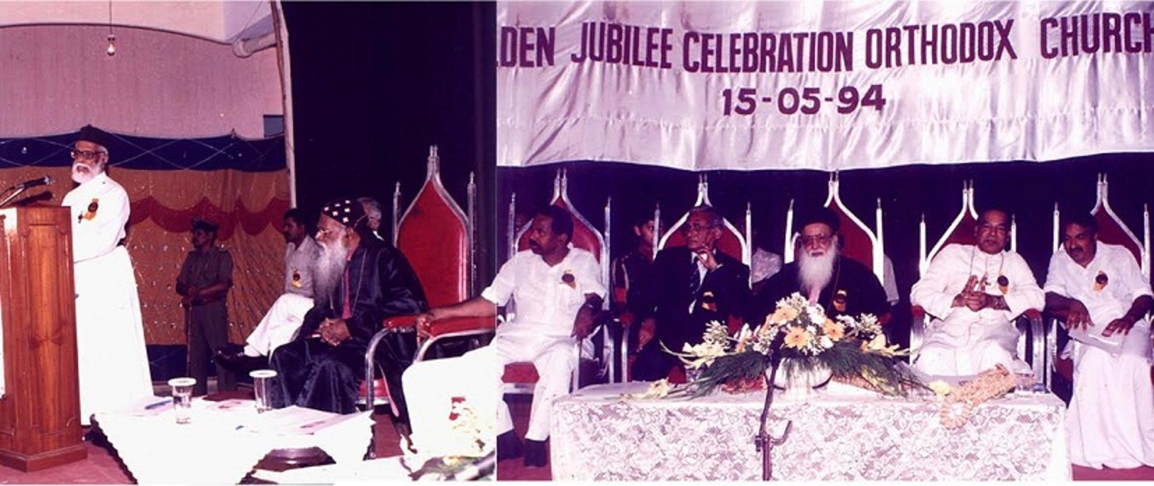 As the First Vicar of the Orthodox Christian Church in Bangalore and the Founder Father of many Parishes in Bangalore Rev. Dr. V.C. Samuel addresses the public meeting in connection with the Golden Jubily Celebrations in 1994. H.H. Baselios Marthoma Mathews II, the Catholicose, H.E. Dr. P.C. Alexander, The Governor of Maharashtra, Veerappa Moily, the Chief Minister of Karnataka, Ommen Chandy, the Finance Minister of Kerala, and Metropolitan Sachariah Mar Dianosius are in the picture.